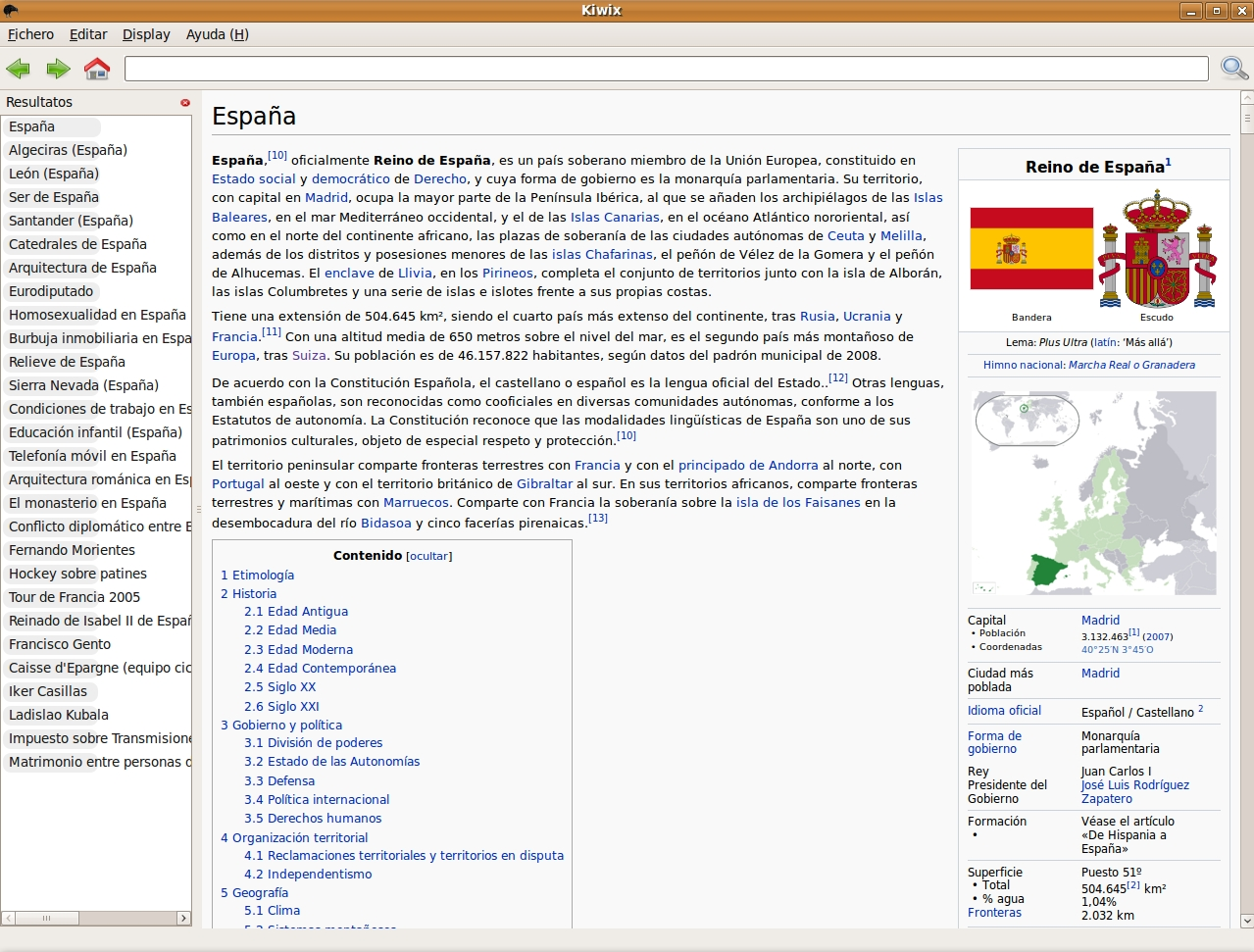 kiwix's a free software for to read wikimedia proyects offline.